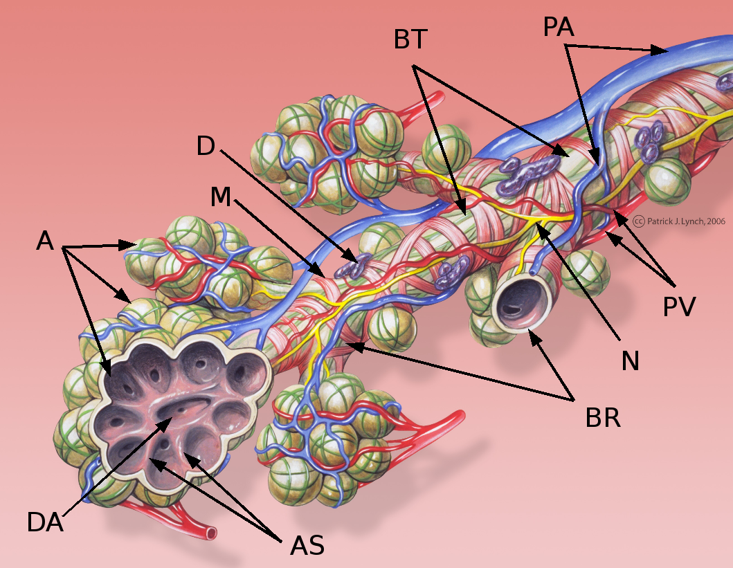 Bronchial anatomy detail of alveoli and lung circulation